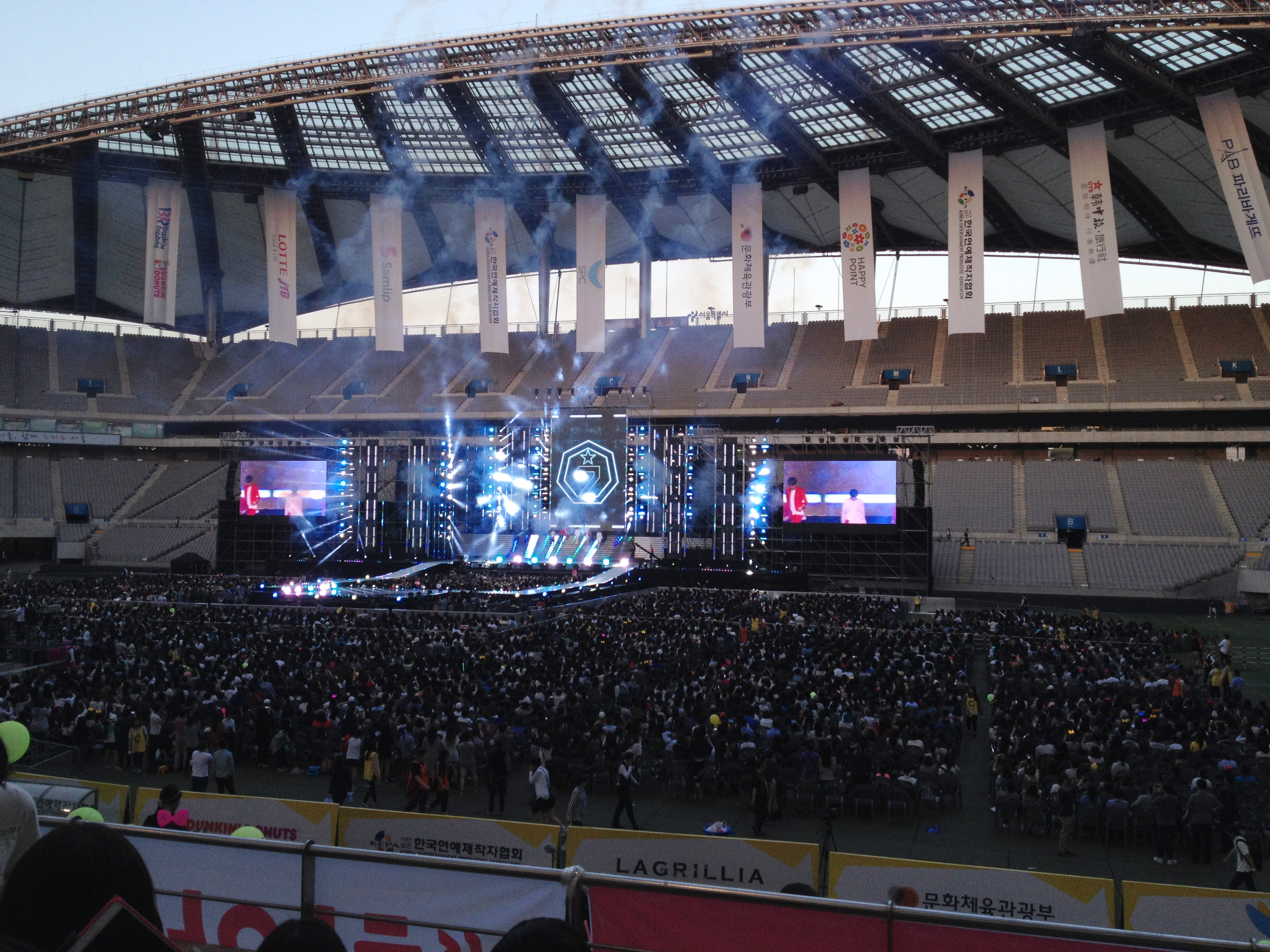 The South Korean boy band GOT7 is performing at Dream Concert 2015.